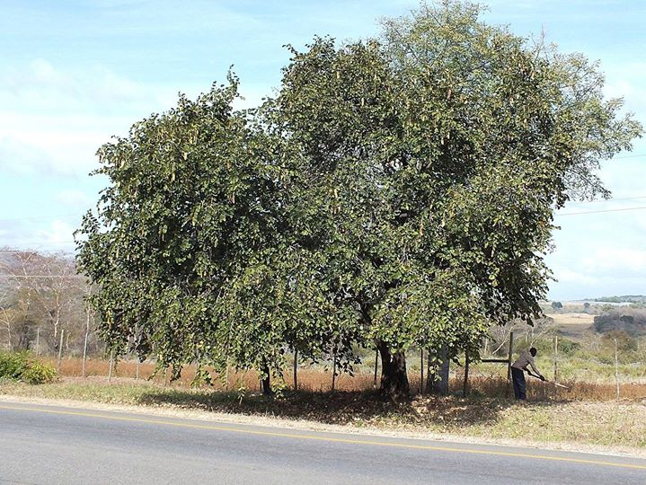 Bauhinia thonningii Schum. - near Gravelotte, Mpumalanga, South Africa